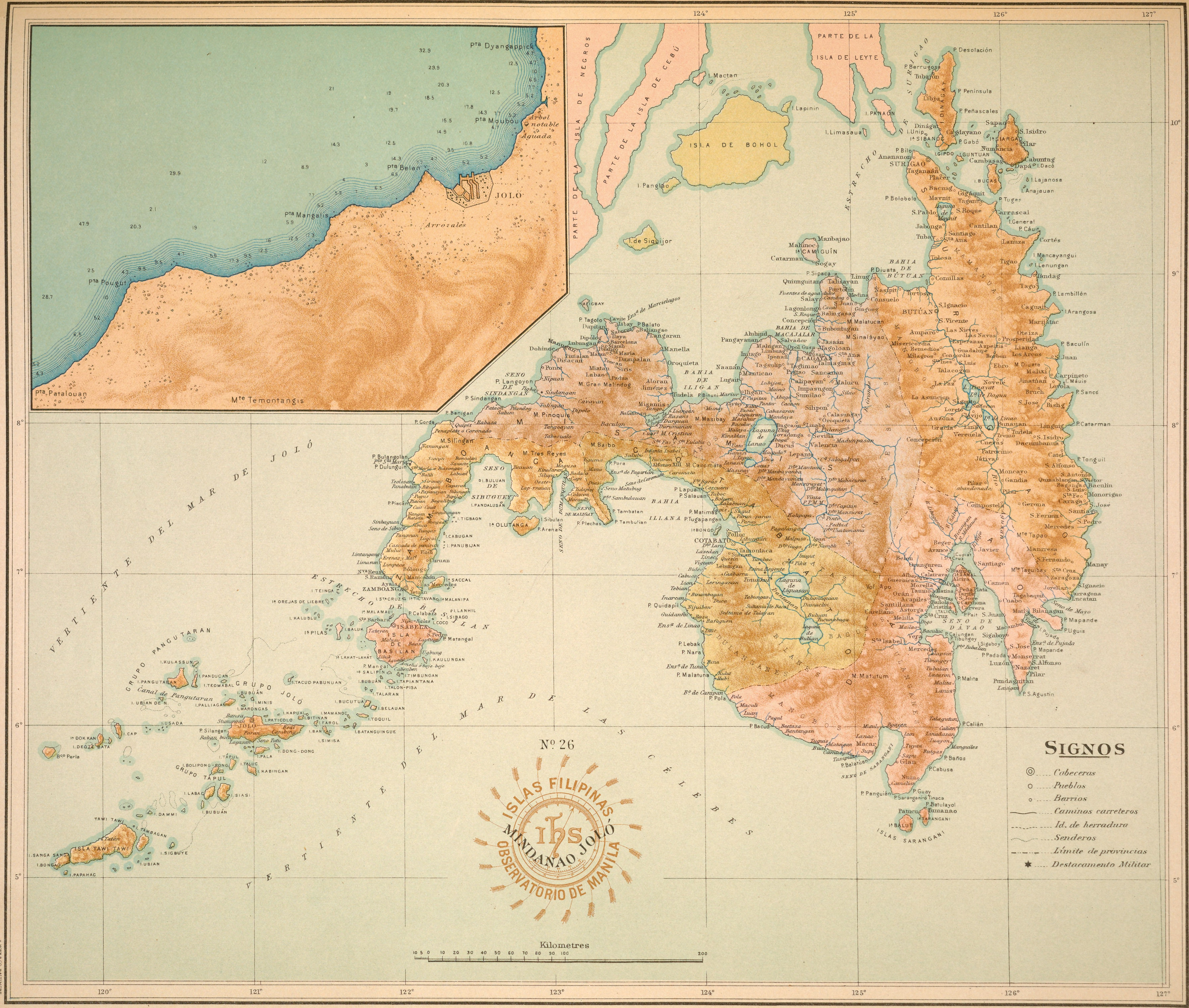 Title: Atlas of the Philippine Islands Year: 1900 (1900s) Authors: Algué, José, 1856- Algue, P. Jose, 1856- U.S. Coast and Geodetic Survey Subjects: Publisher: Washington : Govt. Print. Off. Text Appearing Before Image: § ^^1 ») «5 1 o; o- O w B O UNITED STATES COAST AND GEODETIC SURVEY. N9 26- Text Appearing After Image: UNITED STATES COAST AND GEODETIC SURVEY. N? 27.